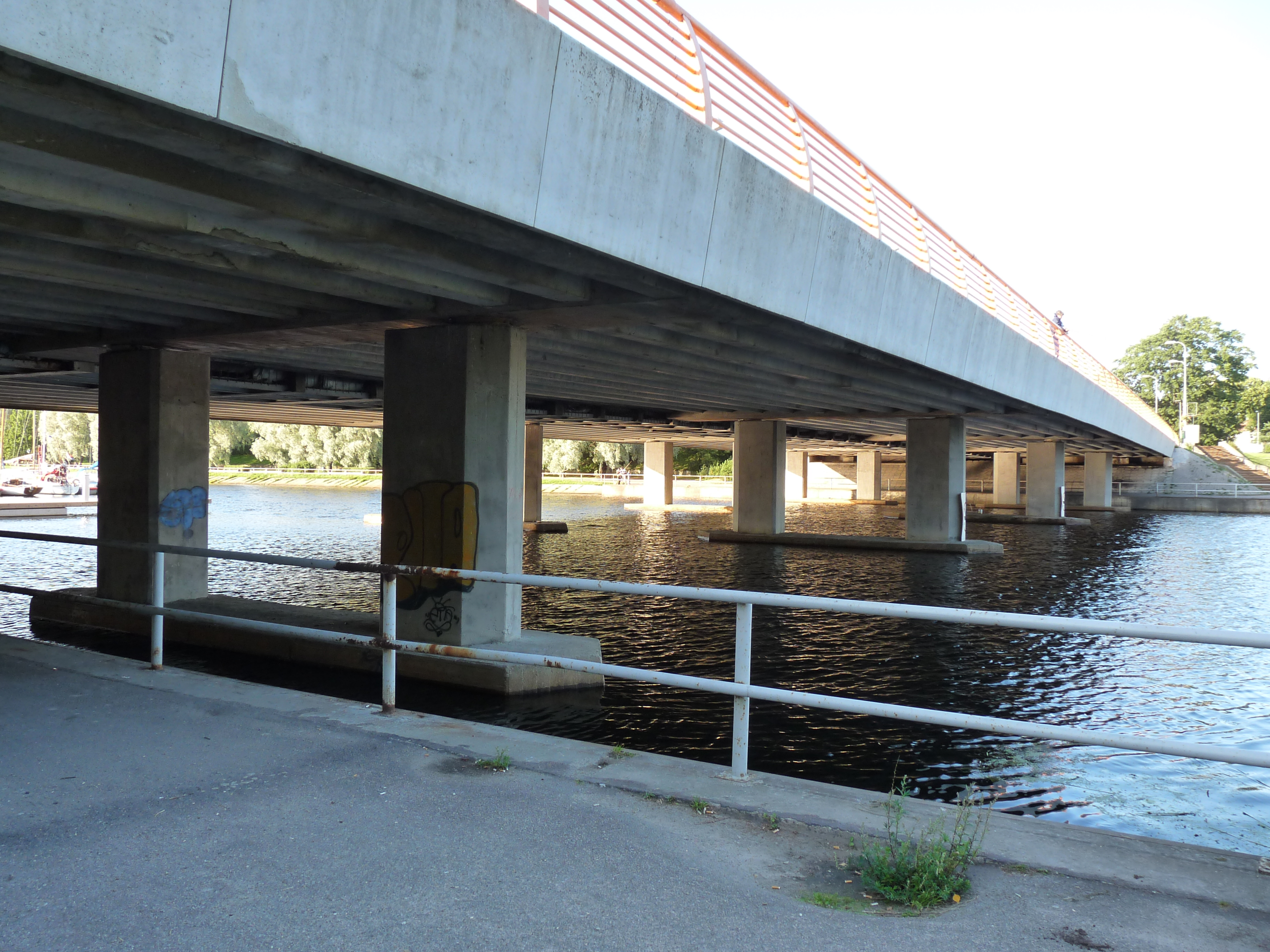 Pirita river under bridge